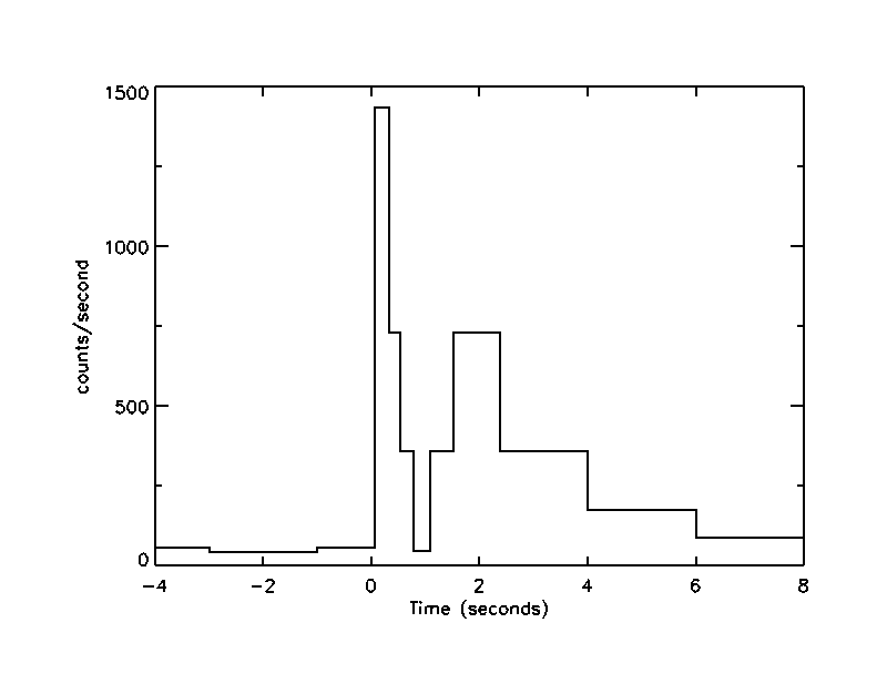 The ever first GRB recorded by Vela 4a,b on July 2, 1967.